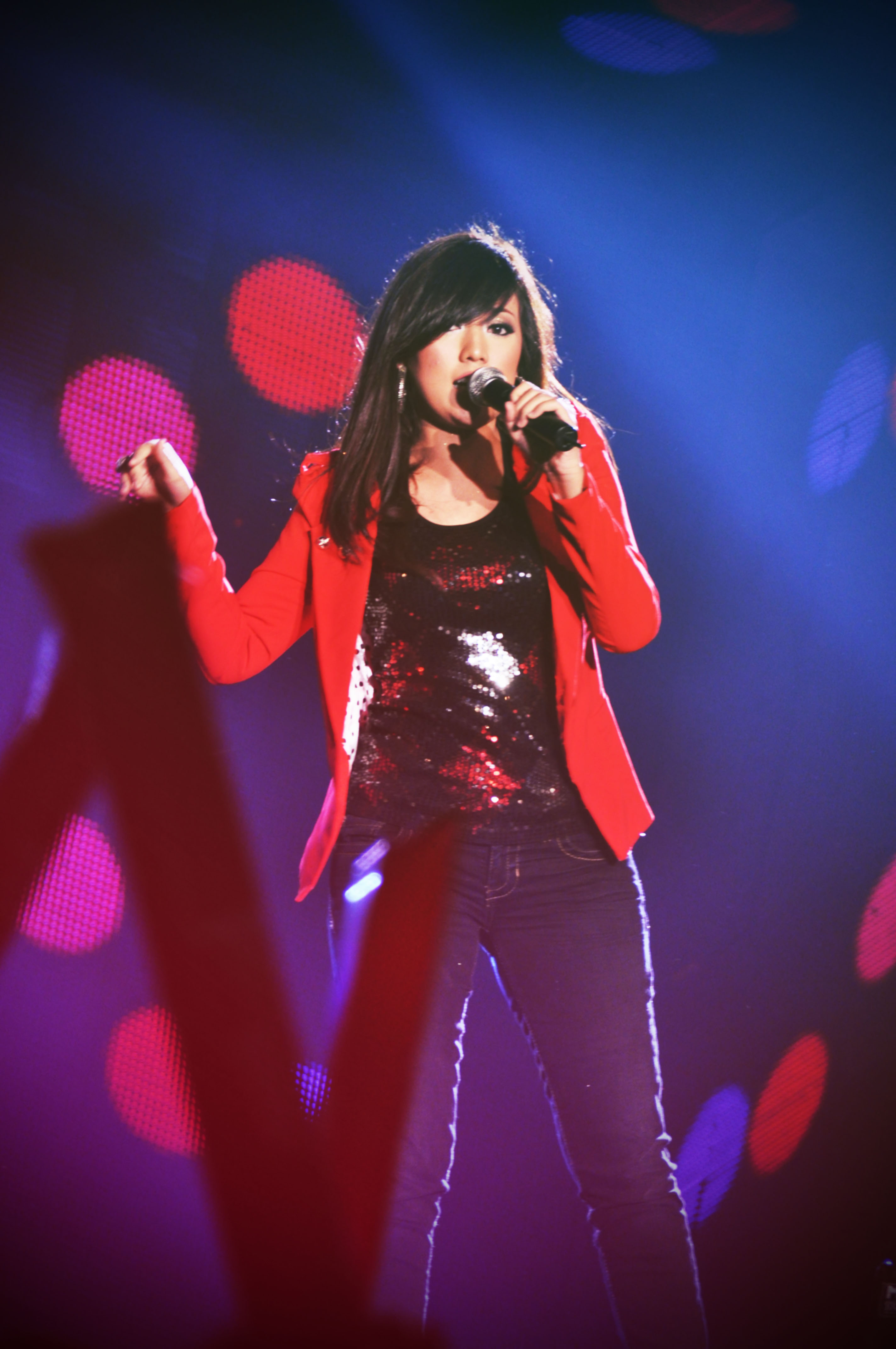 Shila in concert @ Konsert Gegar 2011